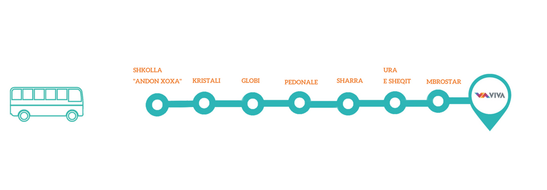 Bus stops from Fier to VIVA Shopping Center